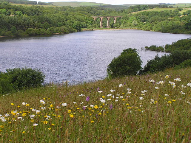 The Wayoh Reservoir and Entwistle Viaduct with wild flowers in the foreground. Photograph by Robert Redman 3 July 2005.